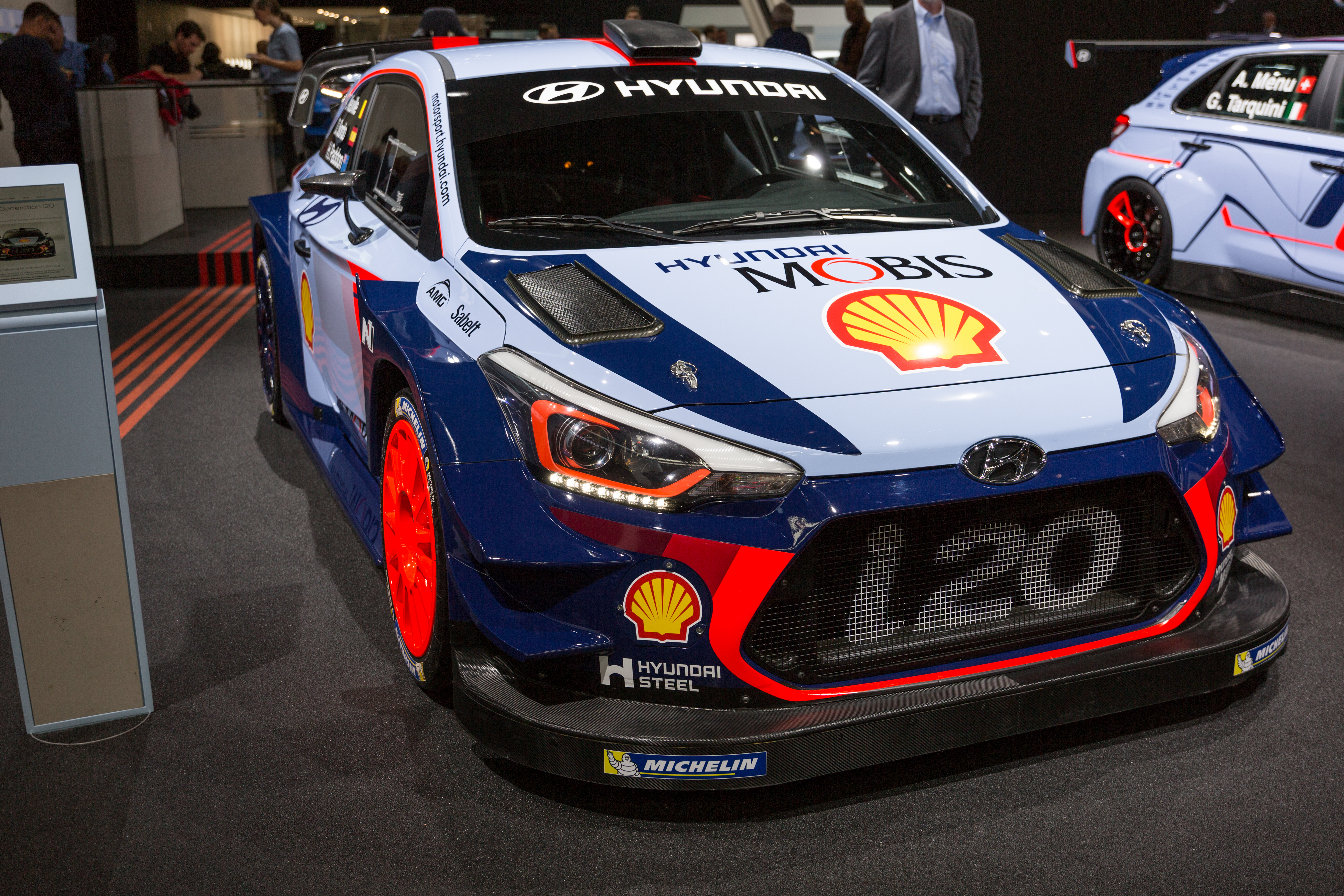 Hyundai i20 Coupe WRC, IAA 2017